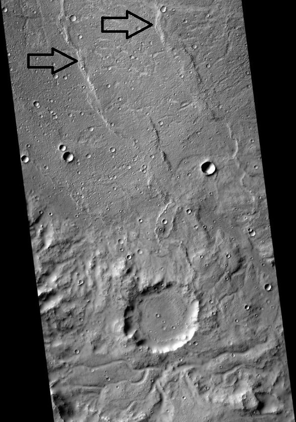 Section of Flaugergues crater (Mars) showing Wrinkle ridges on floor, as seen by CTX.